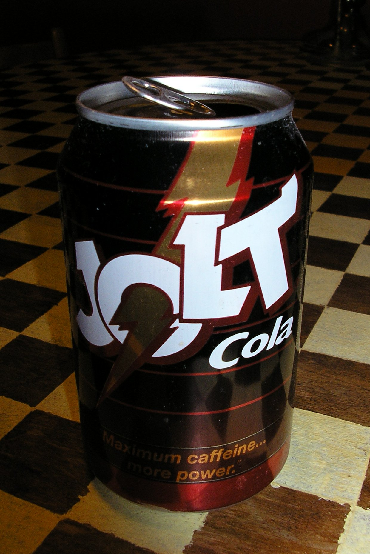 A Jolt can with the text "Maximum caffeine... More power"